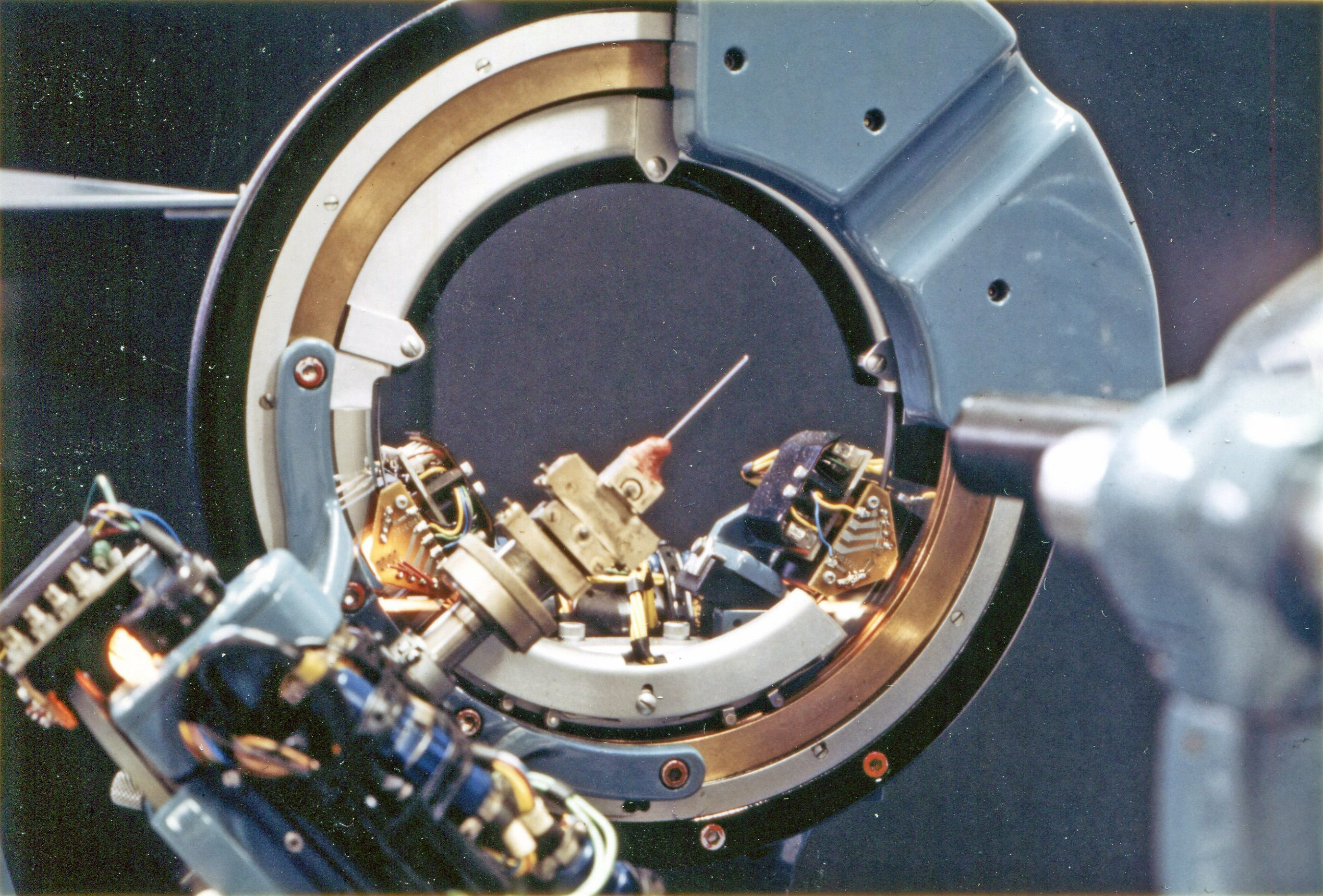 Close-up of the crystal mounted on a Hilger and Watts Y290 four-circle X-ray diffractometer at the University of Oxford (photo: Prof. D. Watkin).